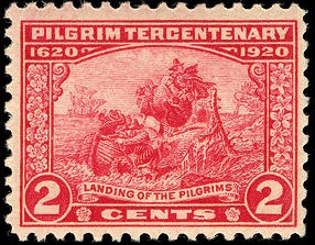 Landing of the Pilgrims, with the Mayflower in the background. Same image as the five-dollar banknote.